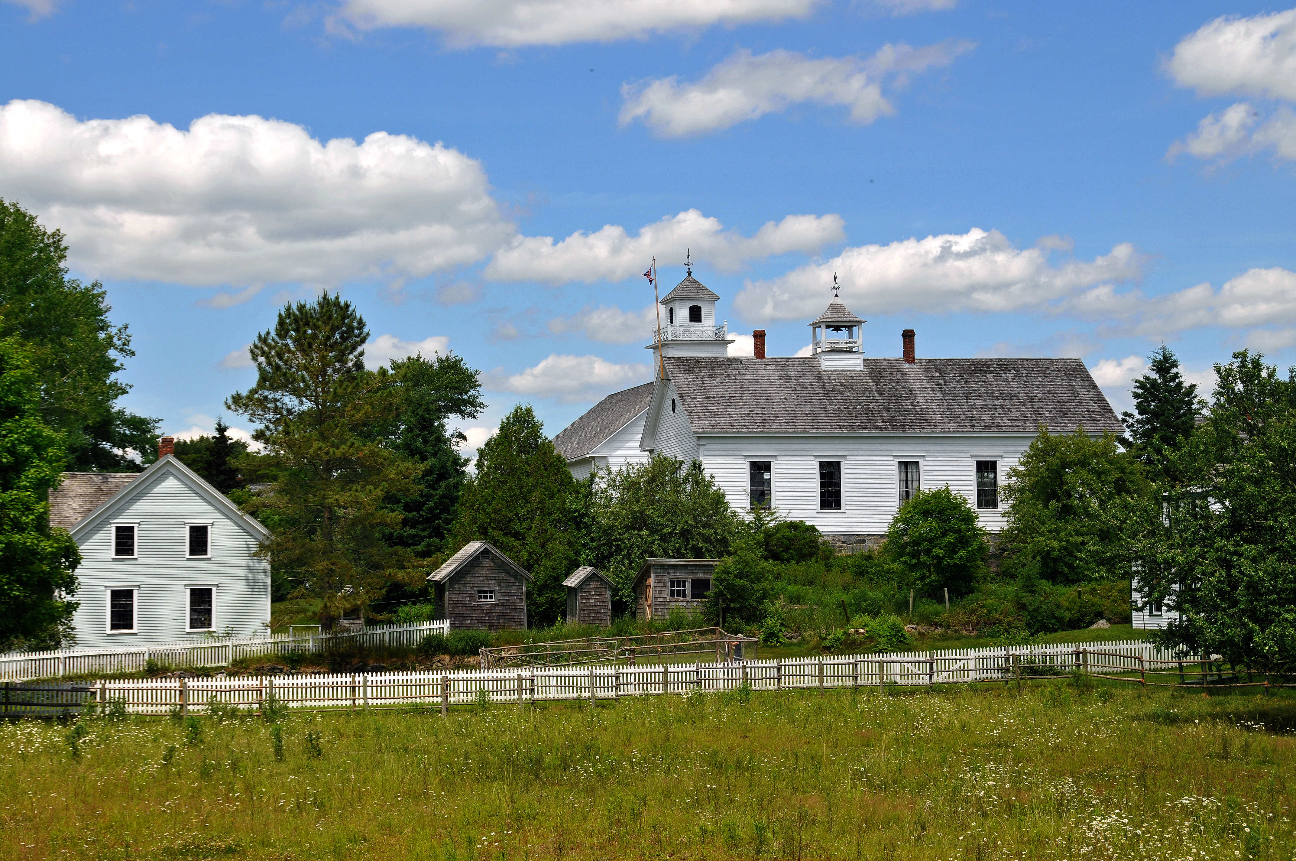 Sherbrooke Village near Sherbrooke, Nova Scotia, Canada. Part of the Nova Scotia Museum. Depicts life in Nova Scotia circa 1860-1910.